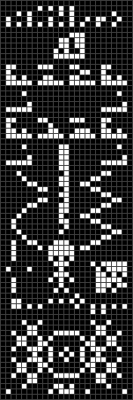 pixel matrix of the supposed answer to the arecibo message found as a crop "circle" in Chilbolton, 2001.